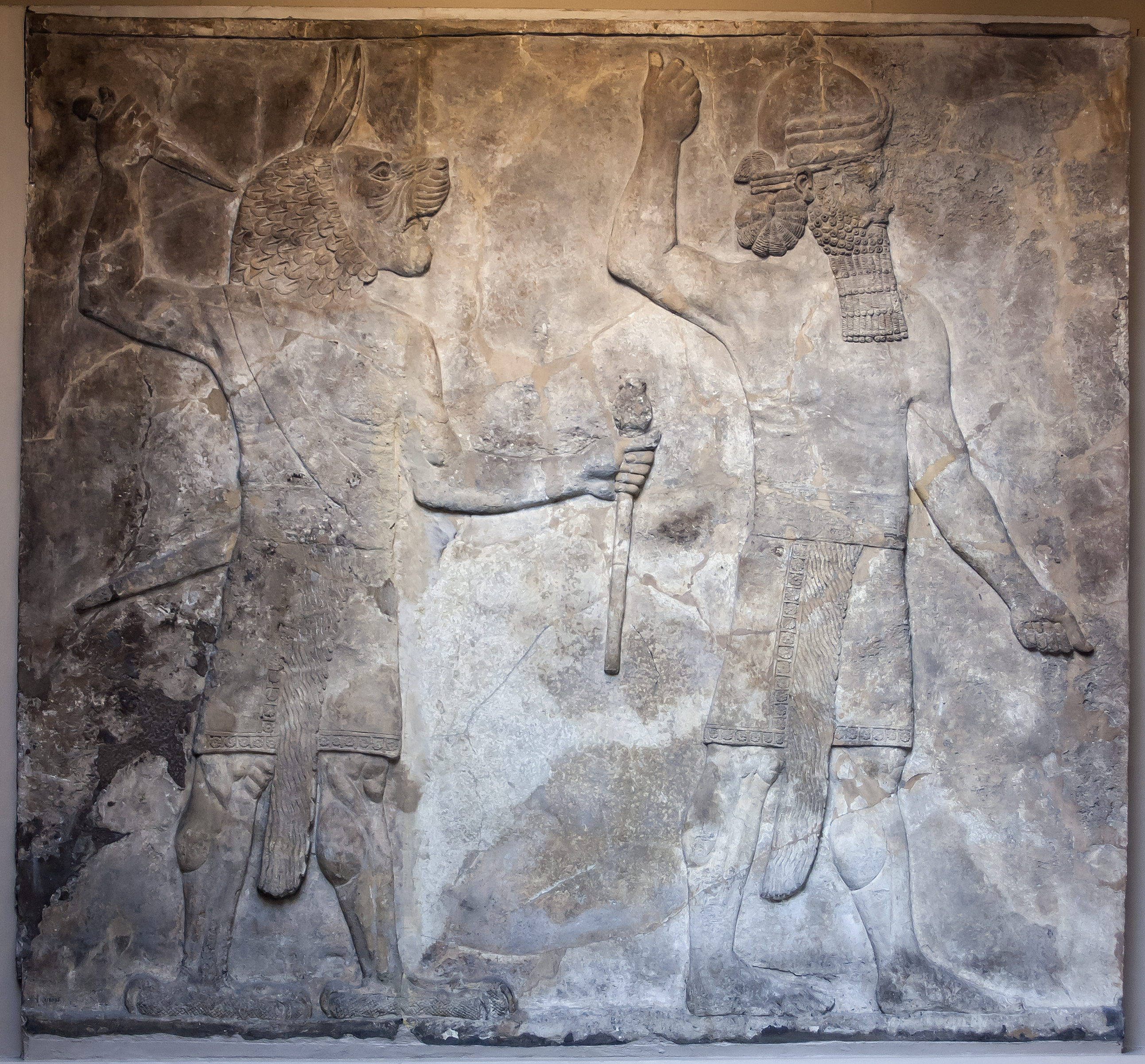 Assyrian panel, 704-681 BC, showing two palace guards: lion-headed Ugallu and a man wearing the horned headdress of a god. On display at the British Museum.